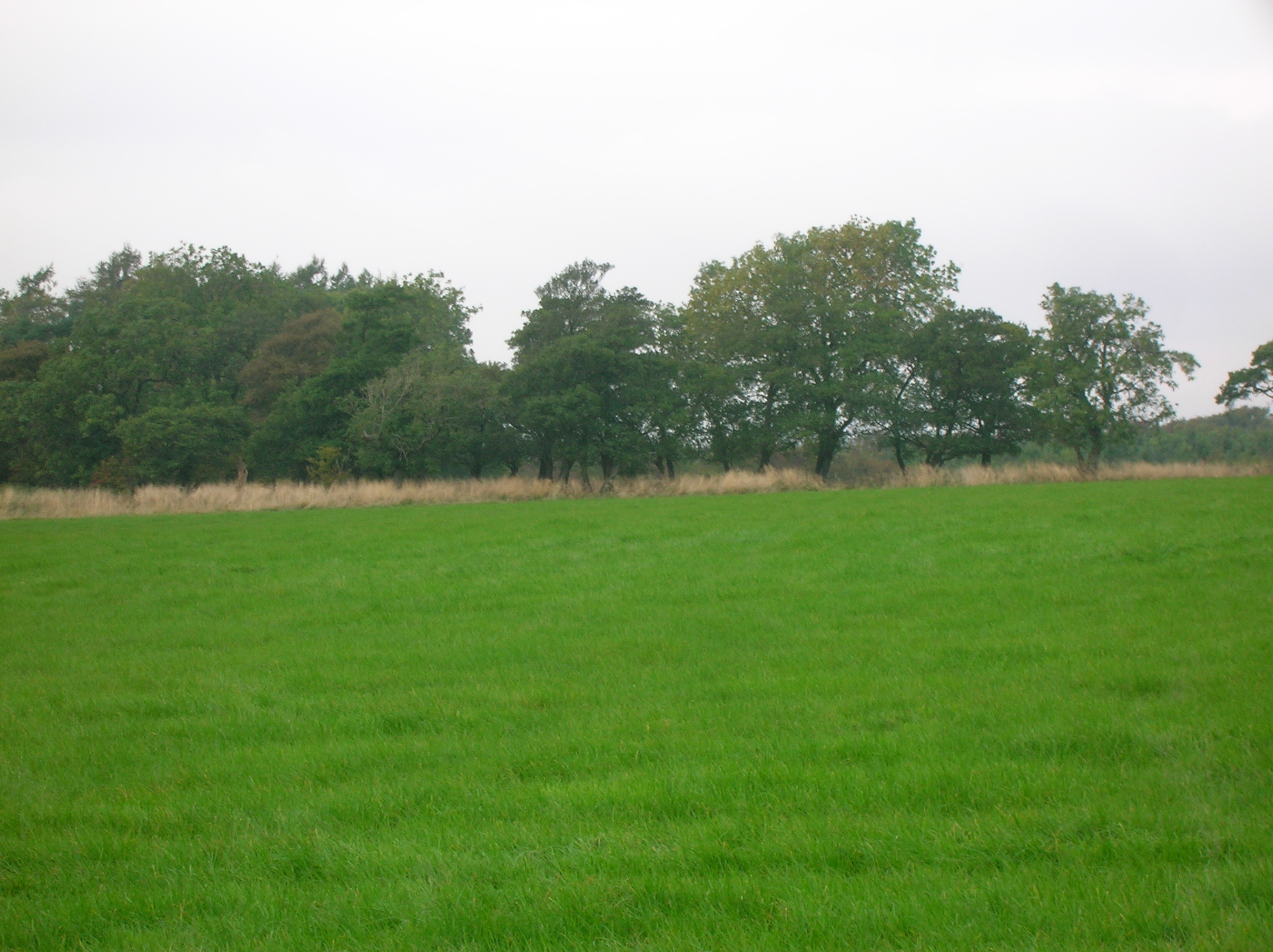 The plantings around the site of the old High Monkredding Farm, Kilwinning, Ayrshire, Scotland